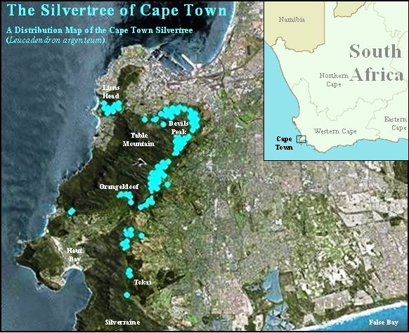 Distribution map of the Silverleaf tree - Leucadendron argenteum. Restricted to the city of Cape Town. Map created using free materials and public information.